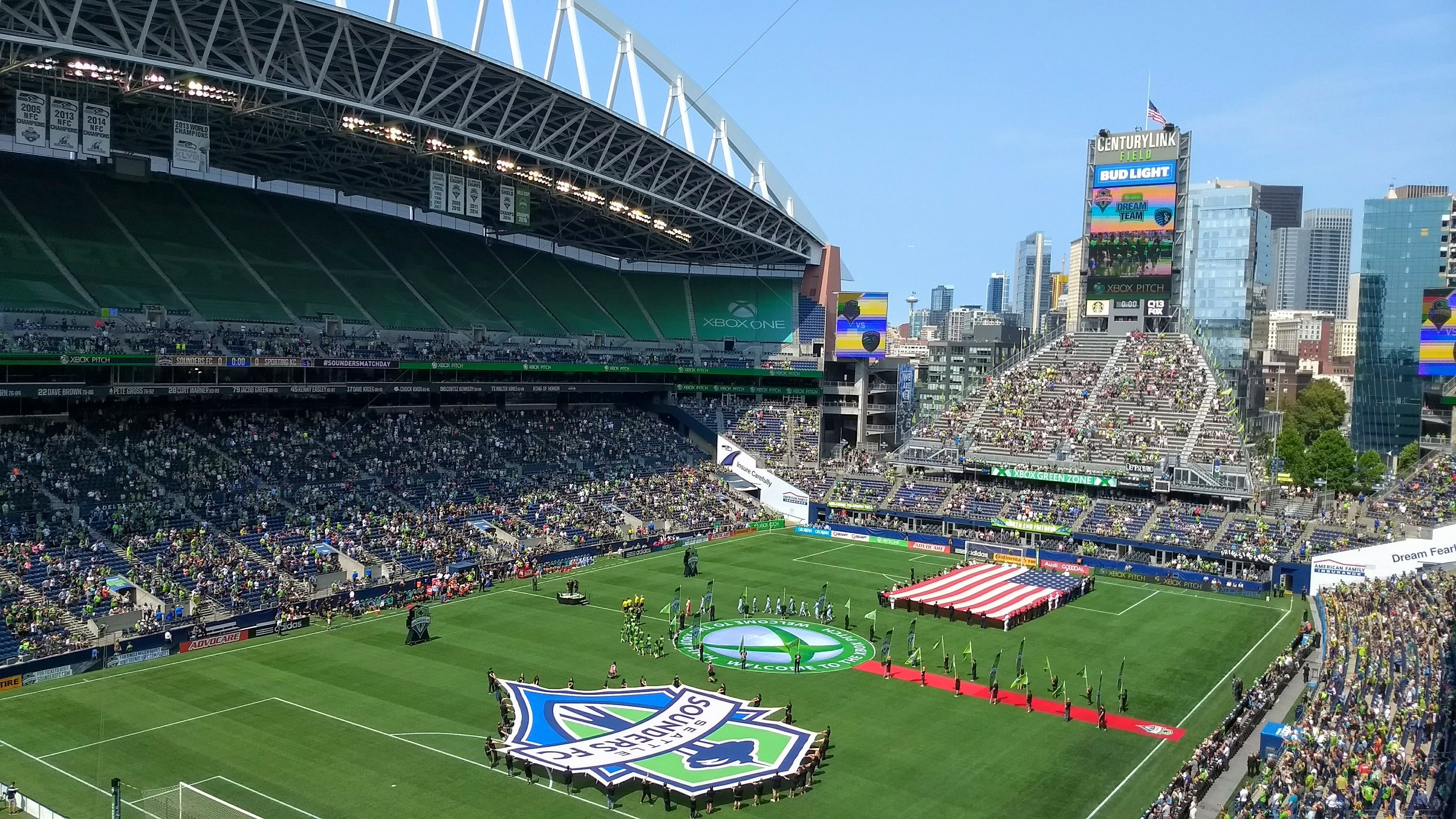 Sounders FC vs Sporting Kansas City